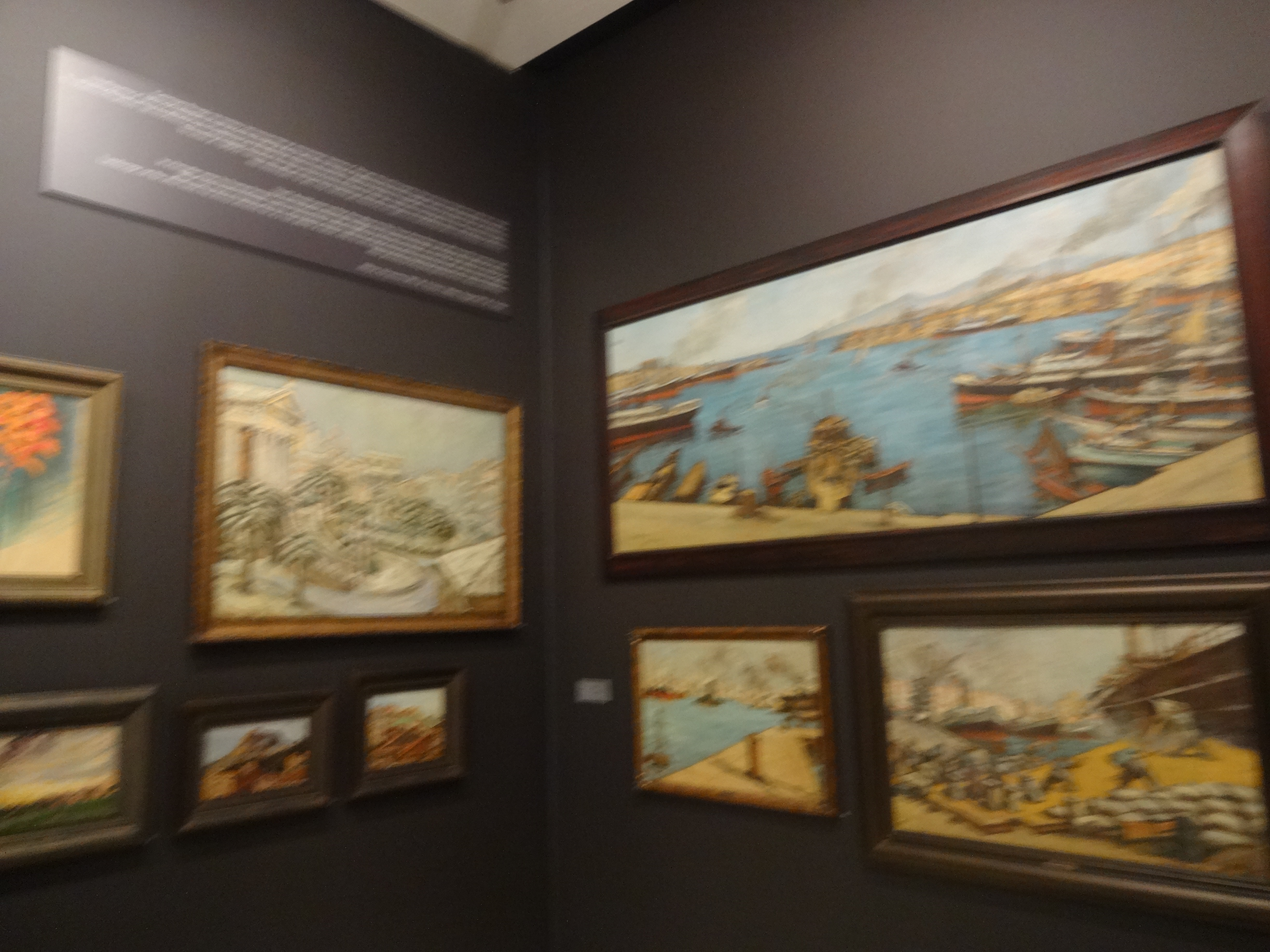 Museum of Bank of Greece. Exhibitions of works by the Greek artist Michael Axelos